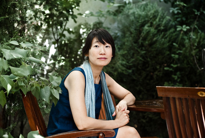 Madeleine Thien (born 1974) is a Canadian short story writer and novelist. Photo credit: Romanian publisher, Humanitas. Madeleine Thien, the SFU English department's writer-in-residence, will read new work in the form of letters at free public reading featuring readings by Vancouver Downtown Eastside writers